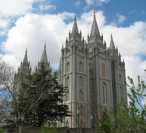 Handsome picture of the Salt Lake Temple of The Church of Jesus Christ of Latter-day Saints, from the Dutch wikipedia taken by Bjørn Graabek April 7, 2003.